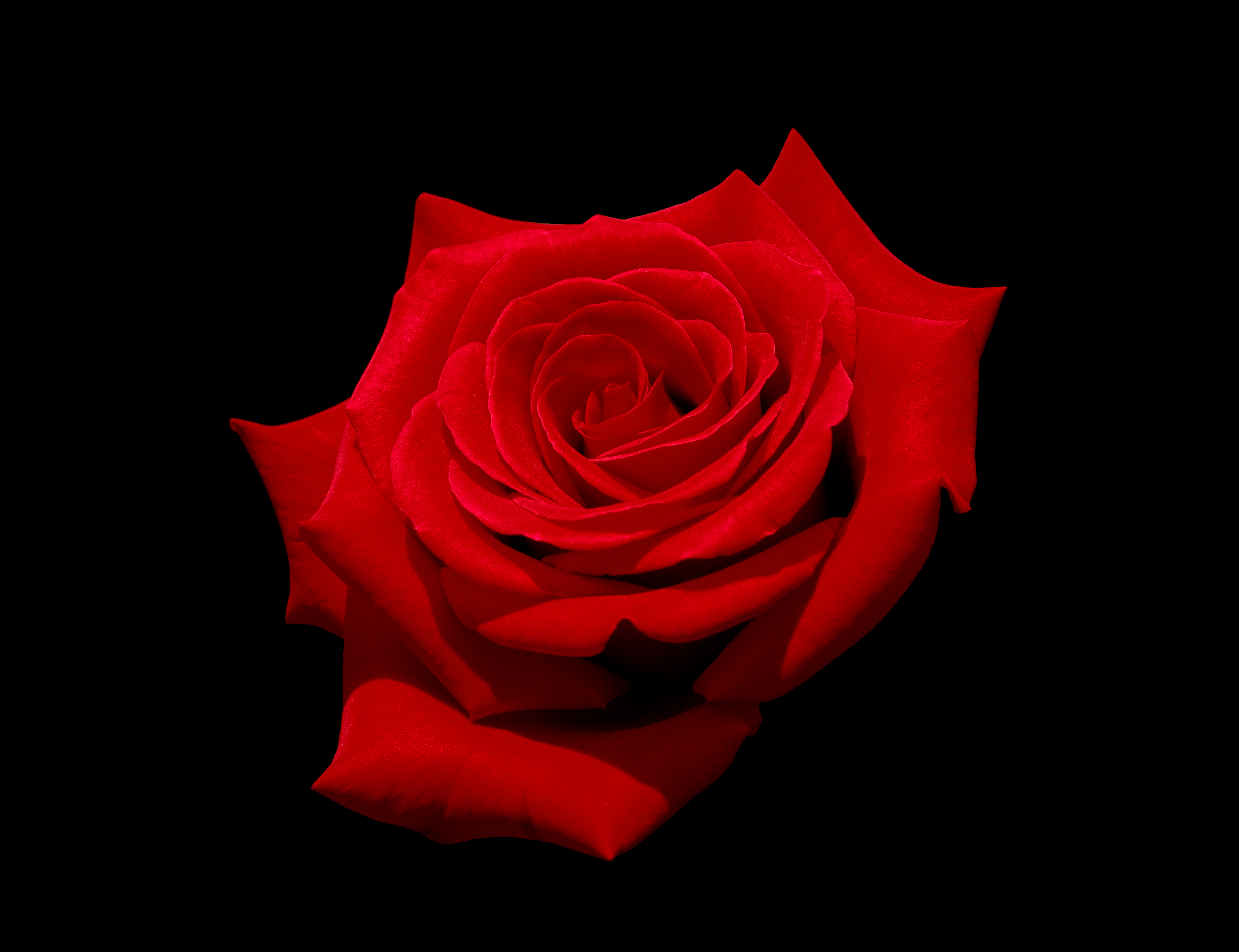 Kardinal – Hybrid tea rose, Raised by R.Kordes, Germany. 1986(reg.)